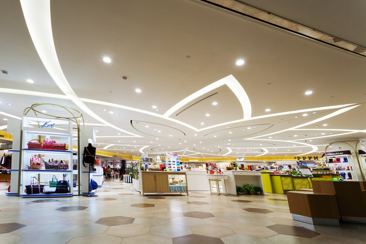 taimall 2015